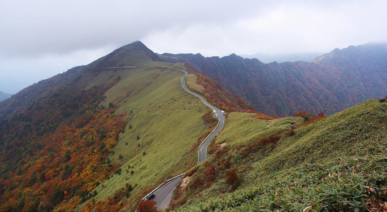 Kamegamori Road in Kochi Prefecture, Japan